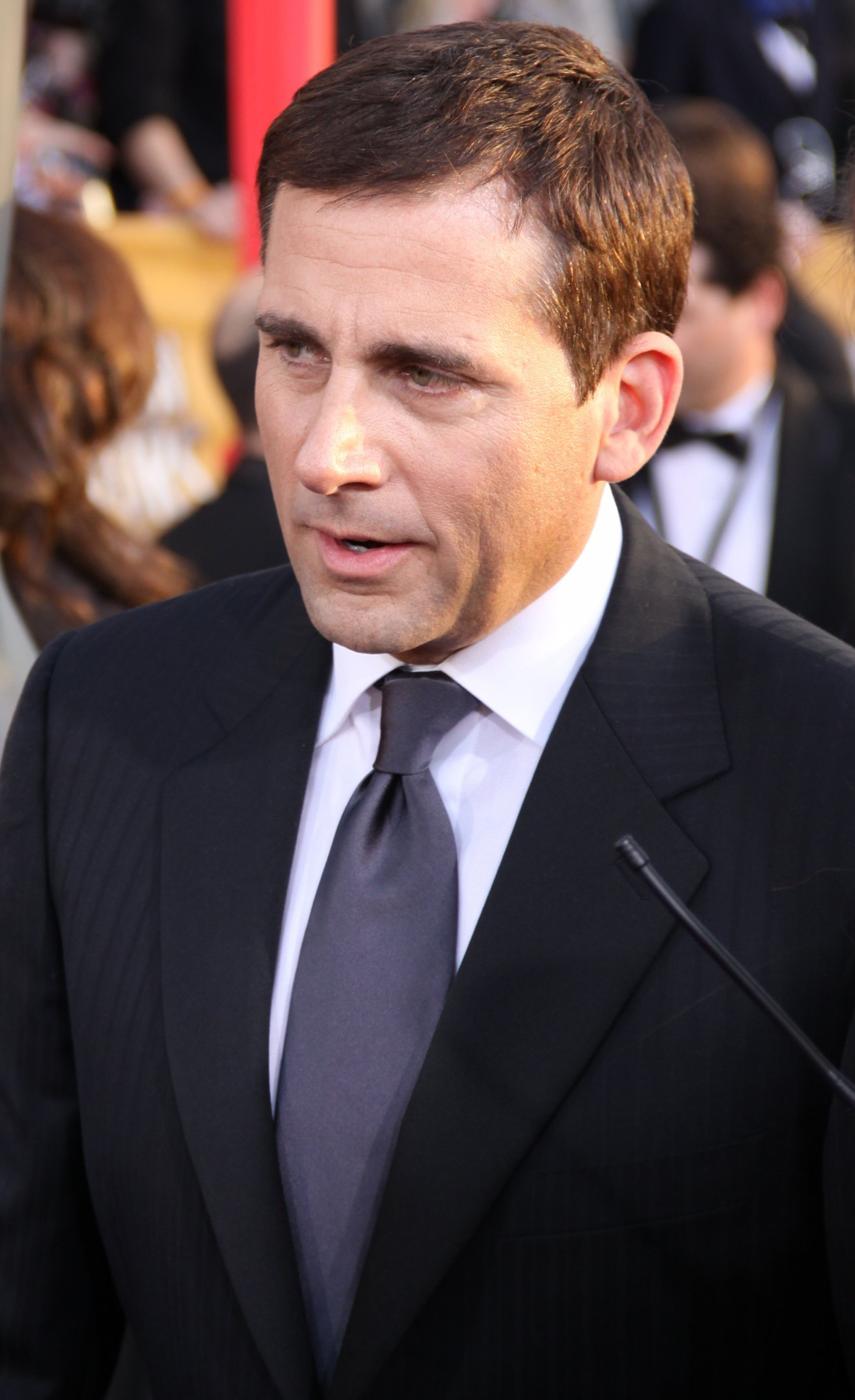 Steve Carell at the Screen Actors Guild Awards at the Shrine Auditorium on January 23rd, 2010.